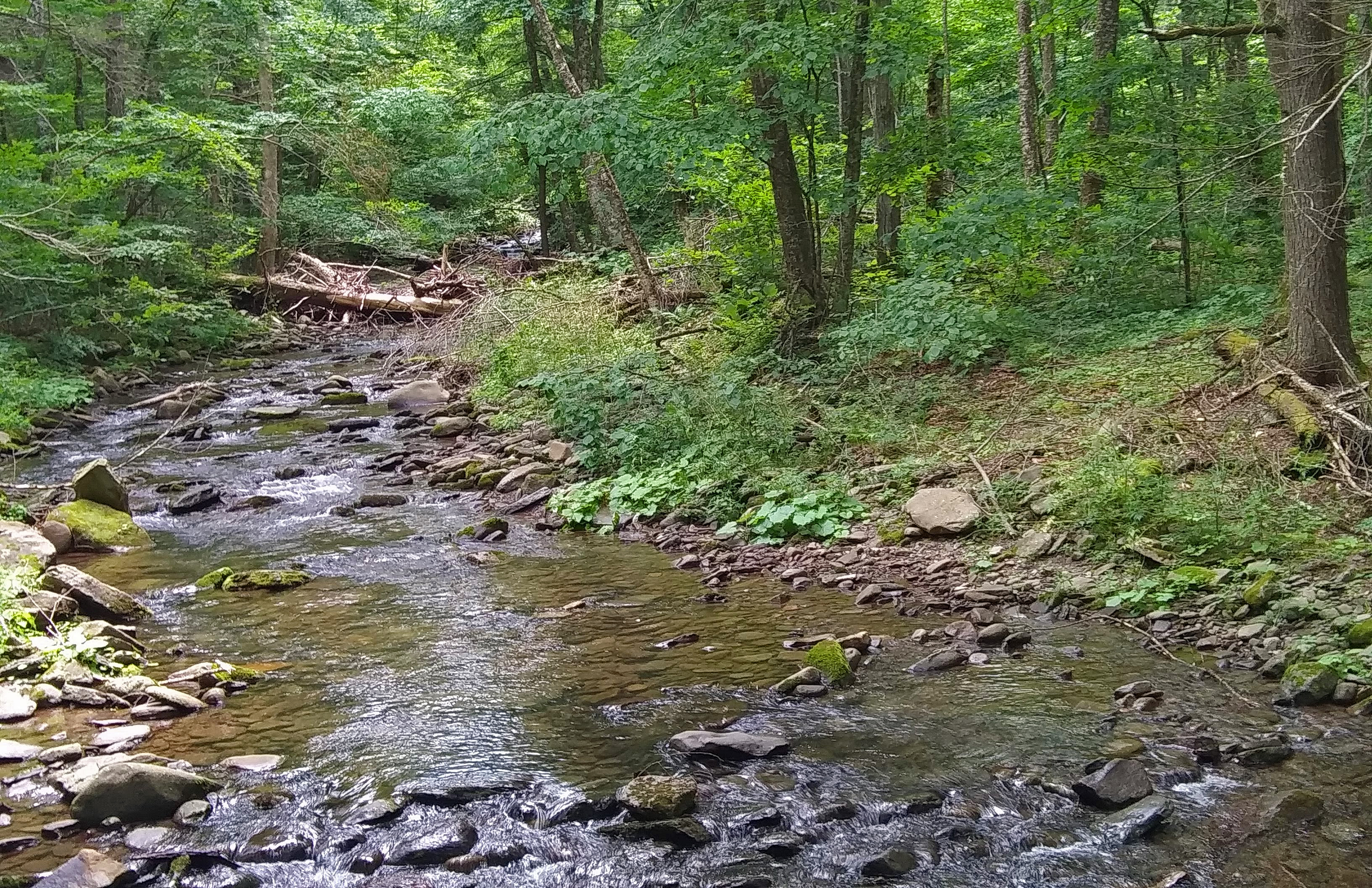 Esopus Creek, in Oliverea, NY, USA, just above where Giant Ledge Stream, its uppermost named tributary (sometimes also locally called Cascade Brook) flows into it, a mile (1.6 km) below its source at Winnisook Lake.